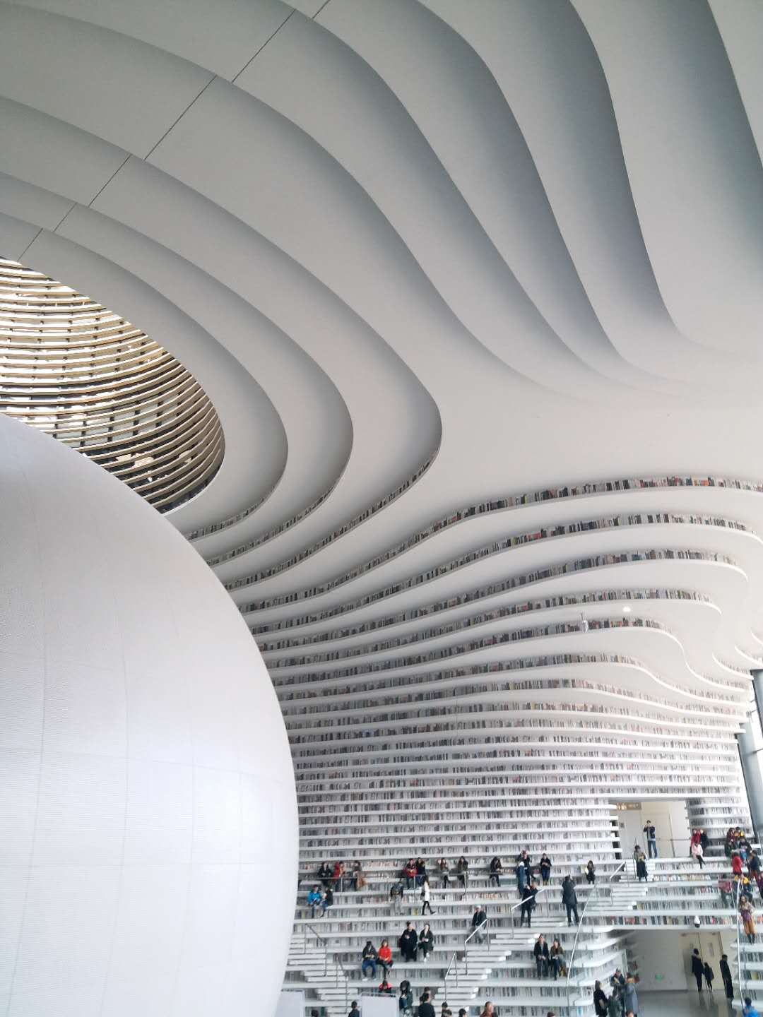 Continuous bookshelves in the interior of library